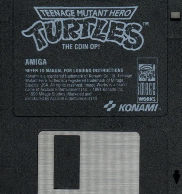 Amiga floppy disc